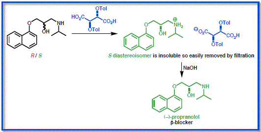 Saltderivati